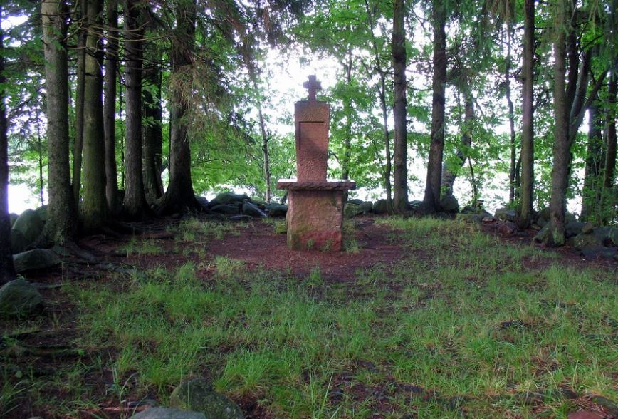 Kirkkokari island in Lake Köyliö, Finland. Site of Medieval chapel and memorial of Christianization of Finland. The island used to be a pilgrimage site.